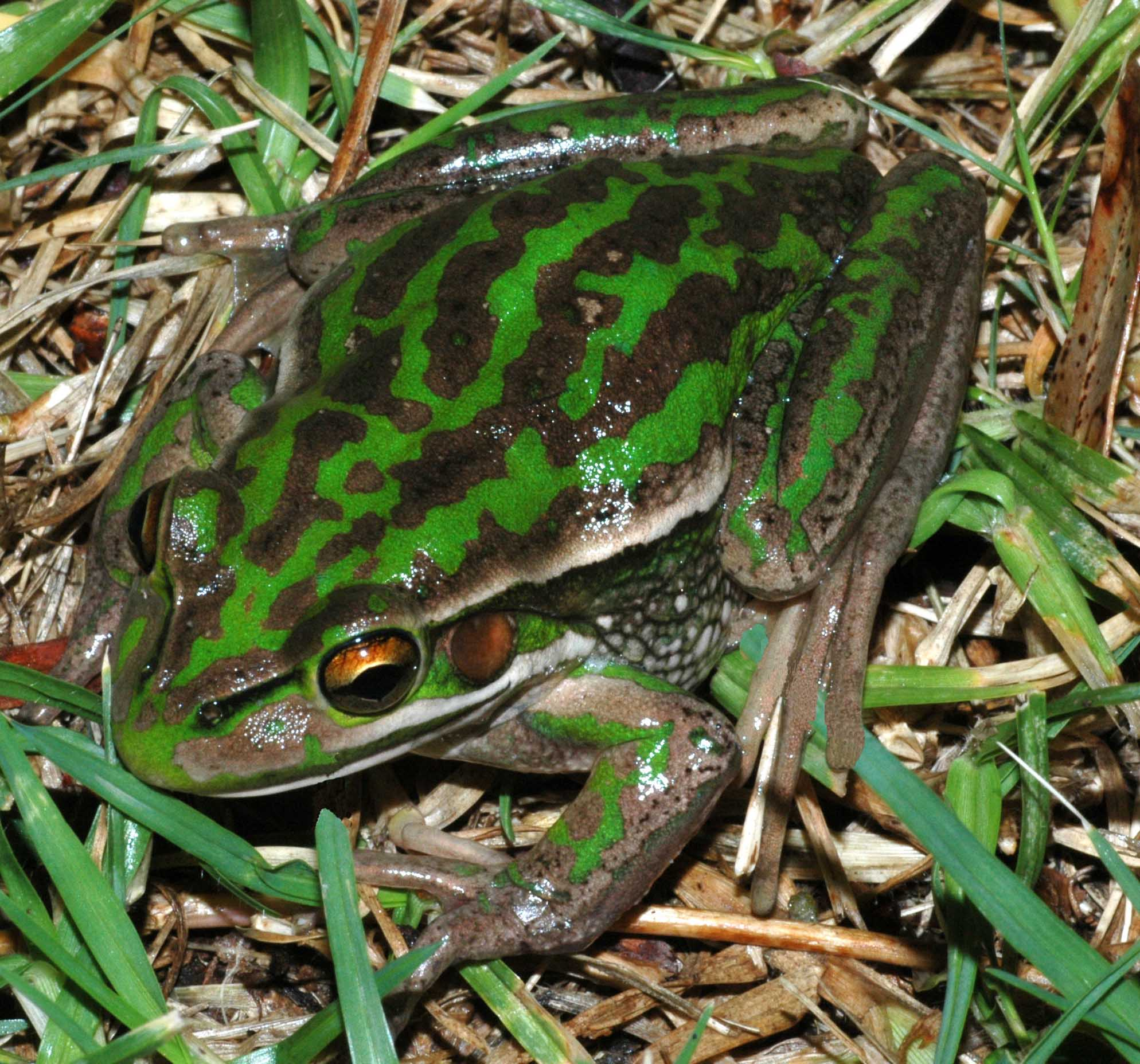 Green and Golden Bell Frog (Litoira aurea)